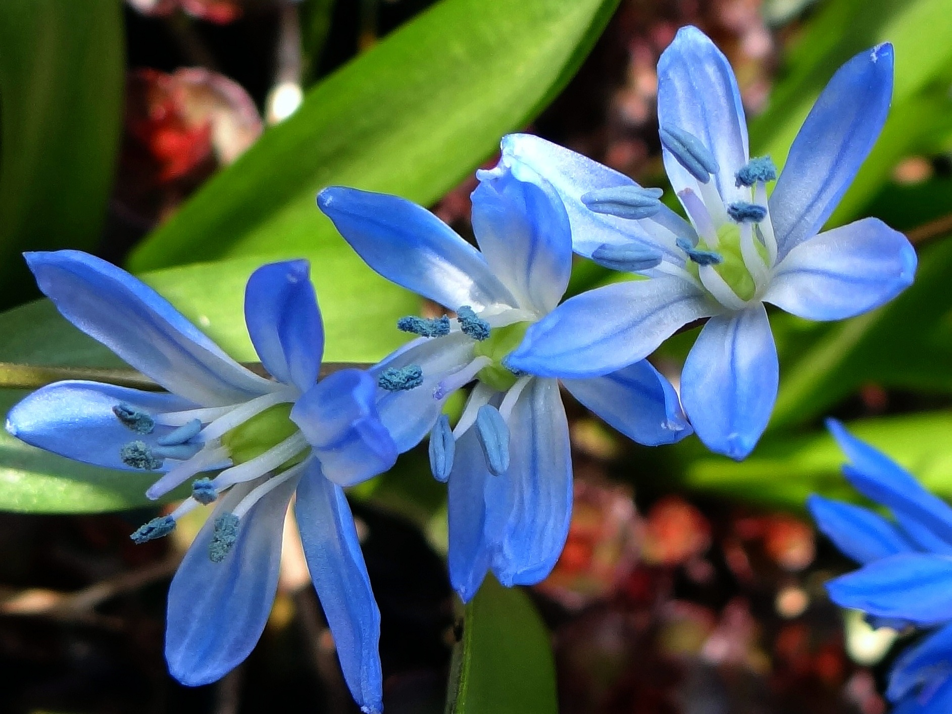 Othocallis siberica